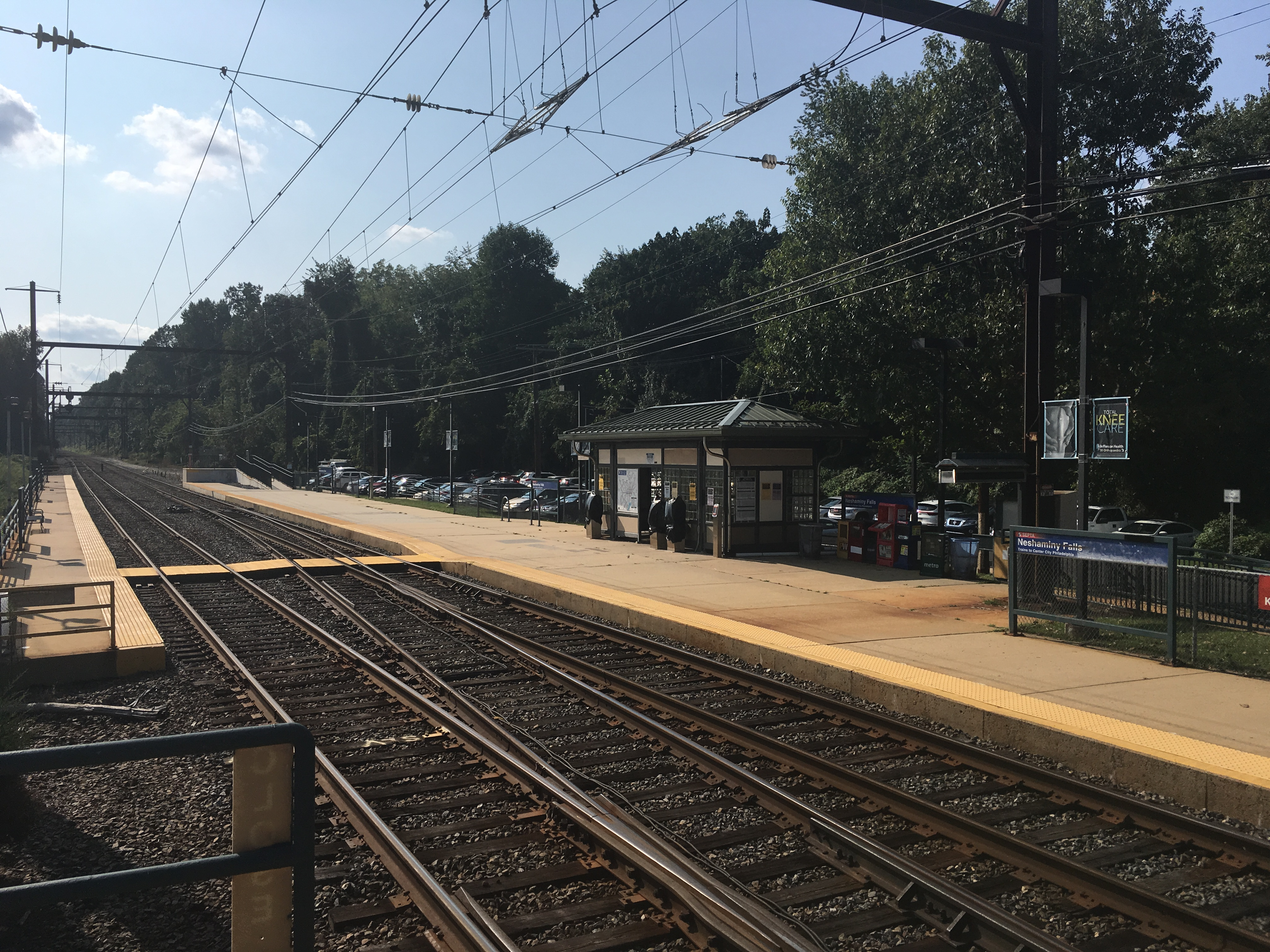 The Neshaminy Falls station along SEPTA’s West Trenton Line in Bensalem Township, Pennsylvania